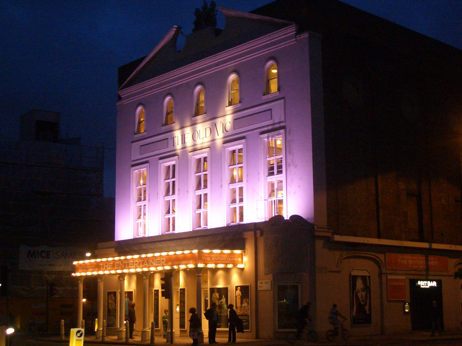 Old Vic, night